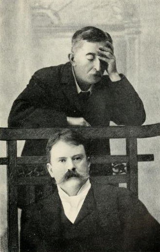 Lafcadio Hearn and Mitchell McDonald